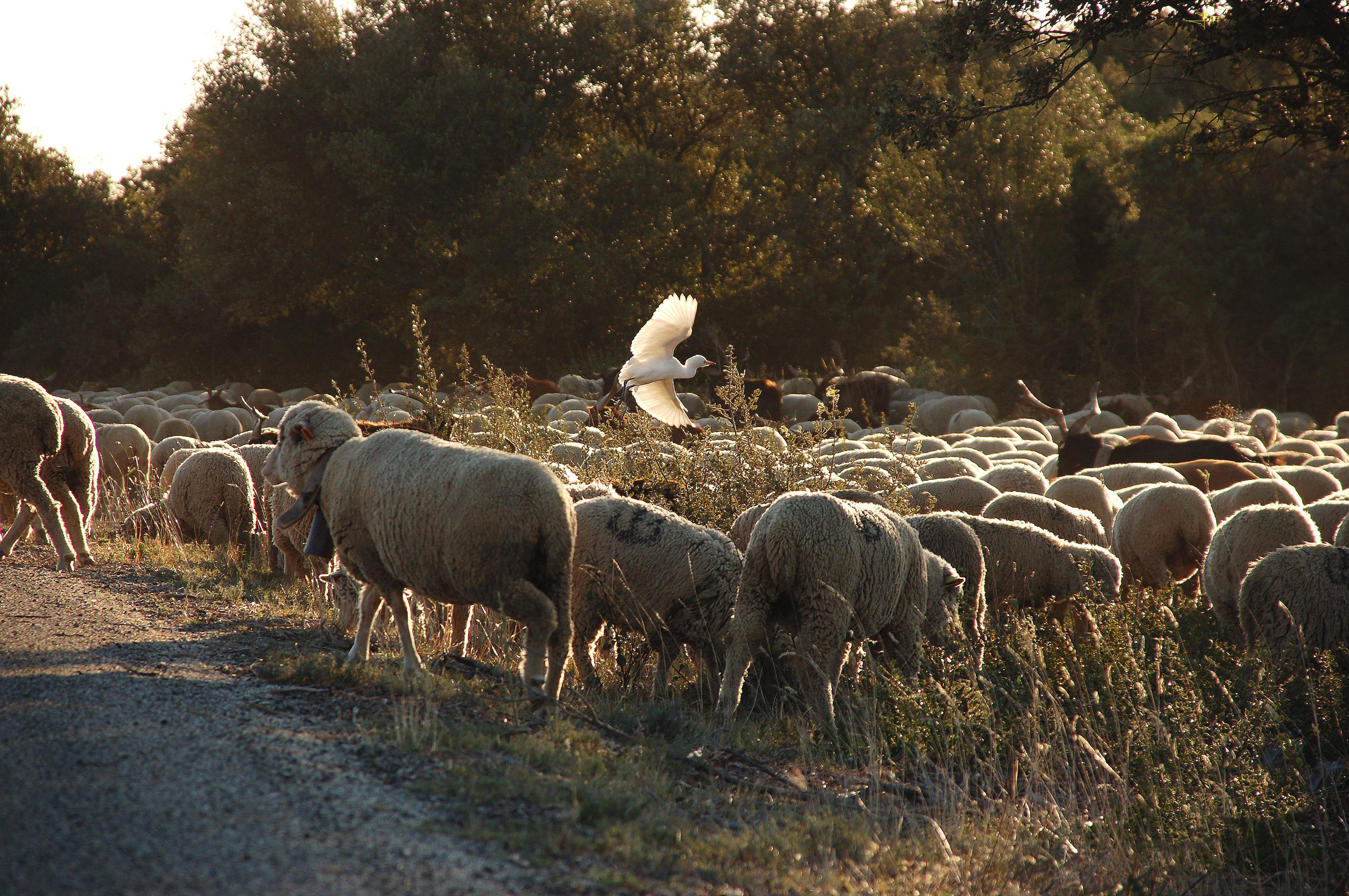 The herd returns, in this end d' after midday of November. This photograph is taken with POULX in GARD. The herd belongs to Mr BONNET. It is photographed by Gerard JOYON